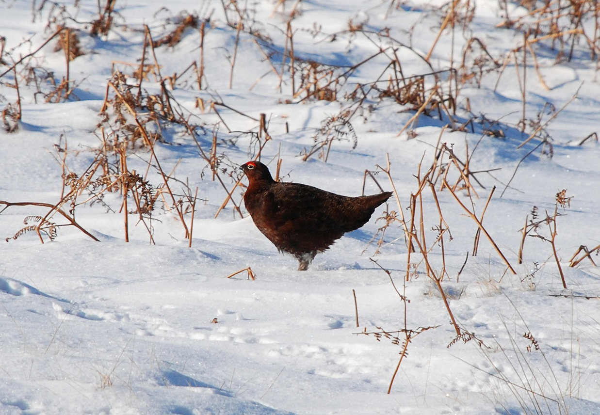 Red Grouse Lagopus lagopus scoticus, Derwent Edge, Peak District National Park, England.